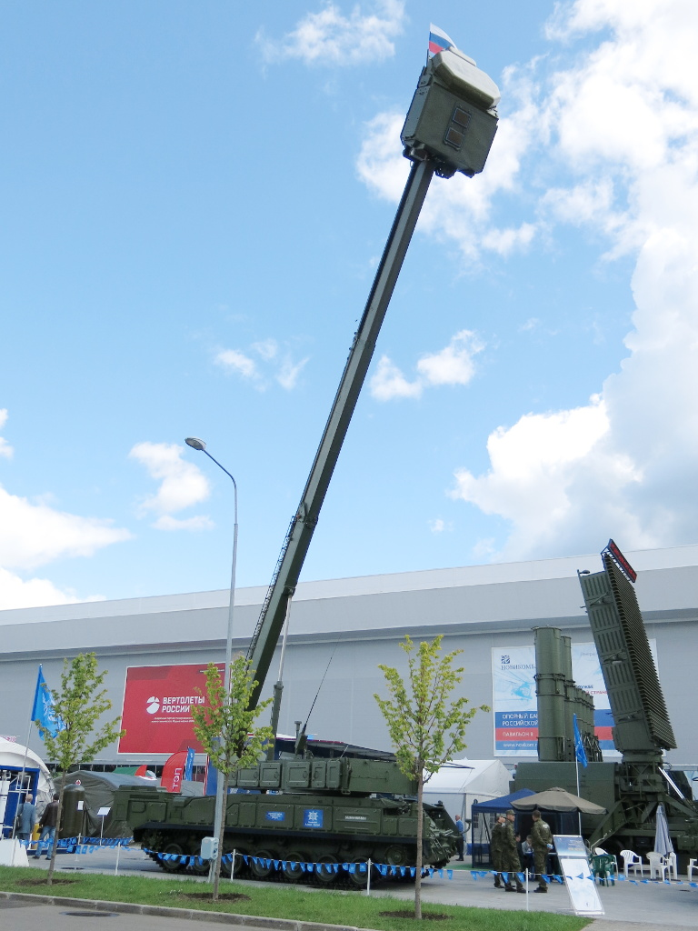 9S36M - mast mounted low altitude acquisition and engagement radar of Buk-M3 system at expo Armia-2018